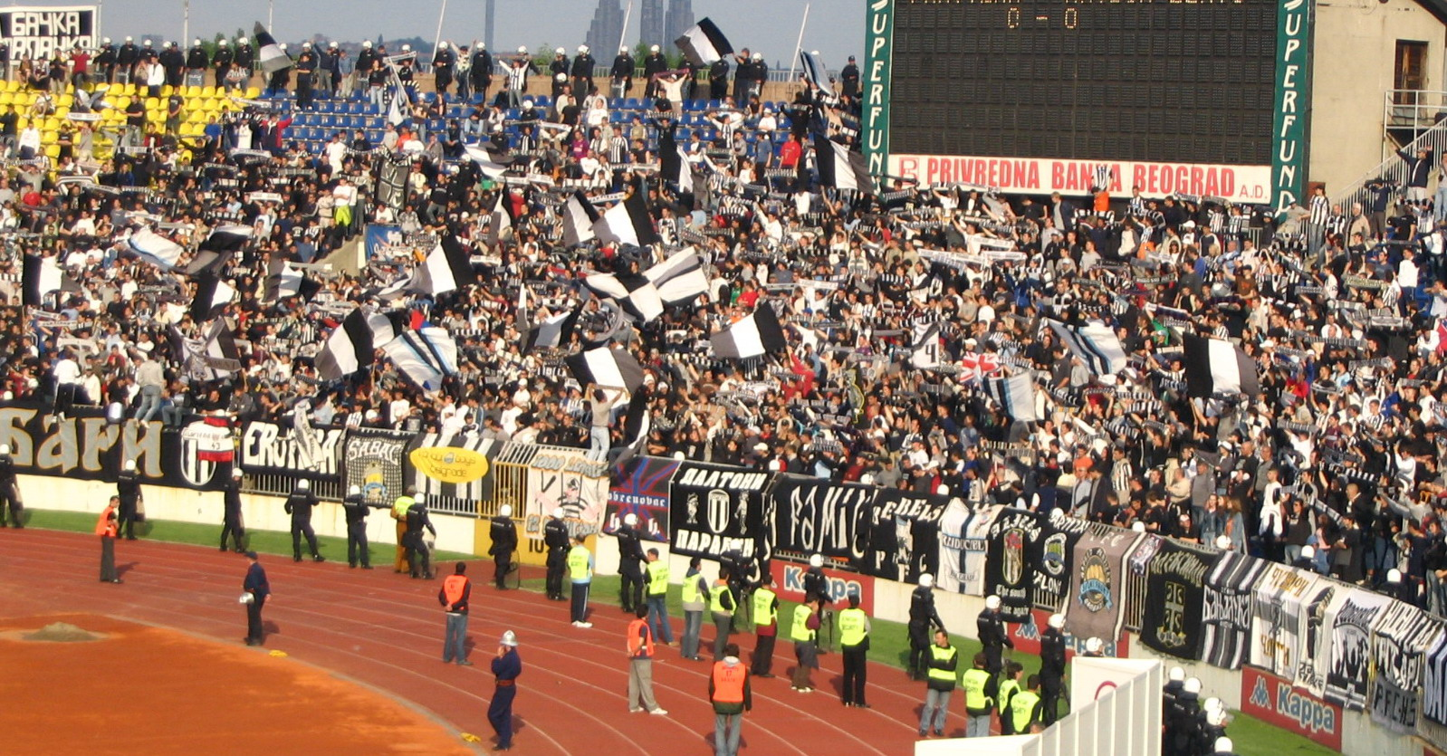 Grobari, fans of FK Partizan, are celebrating 19th champions title